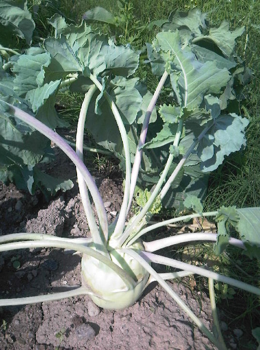 Kohlrabi (German Turnip) (Brassica oleracea Gongylodes Group) in Lónyaytelep, Transylvania.